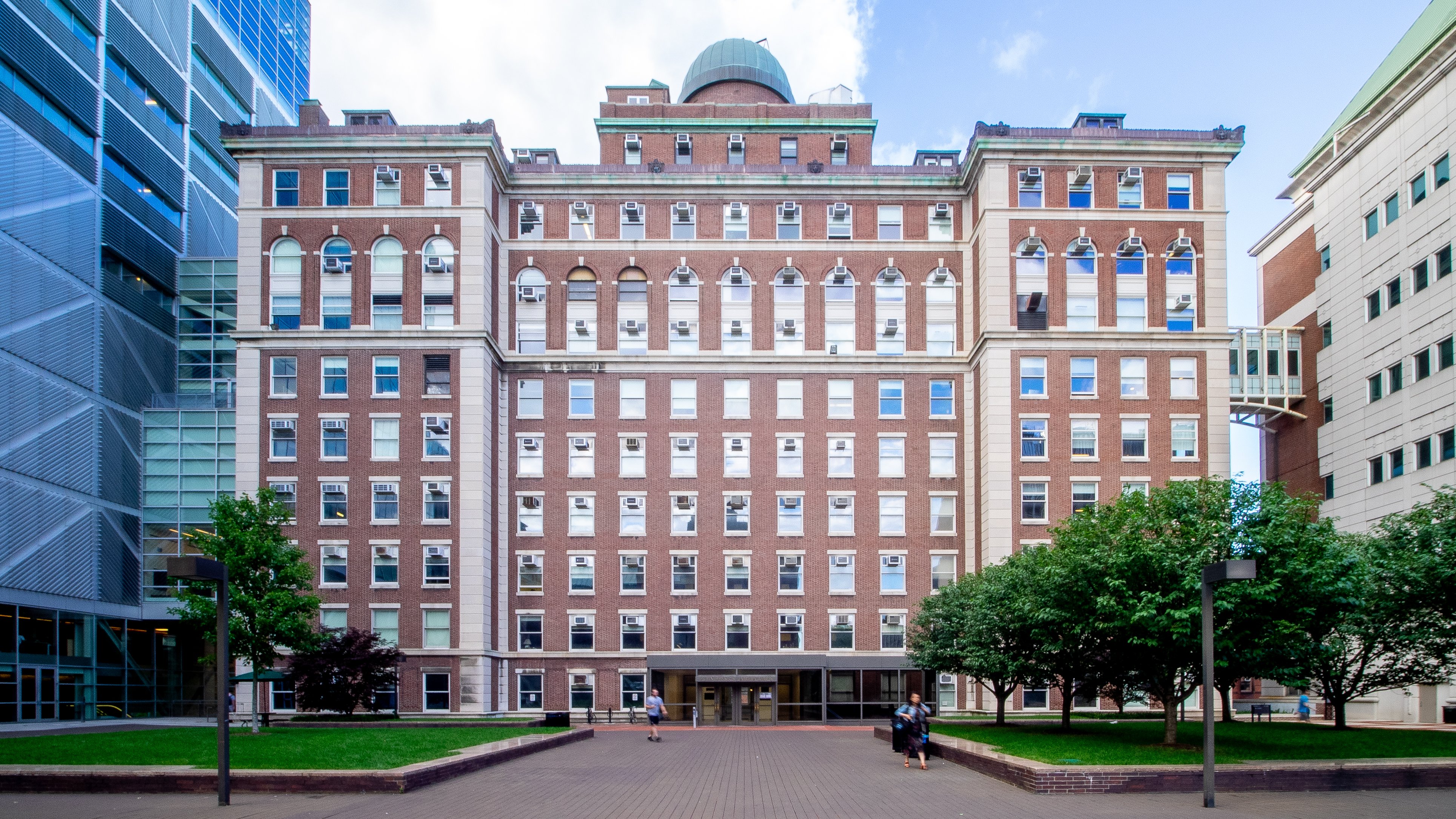 Morningside Heights, Manhattan, NYC